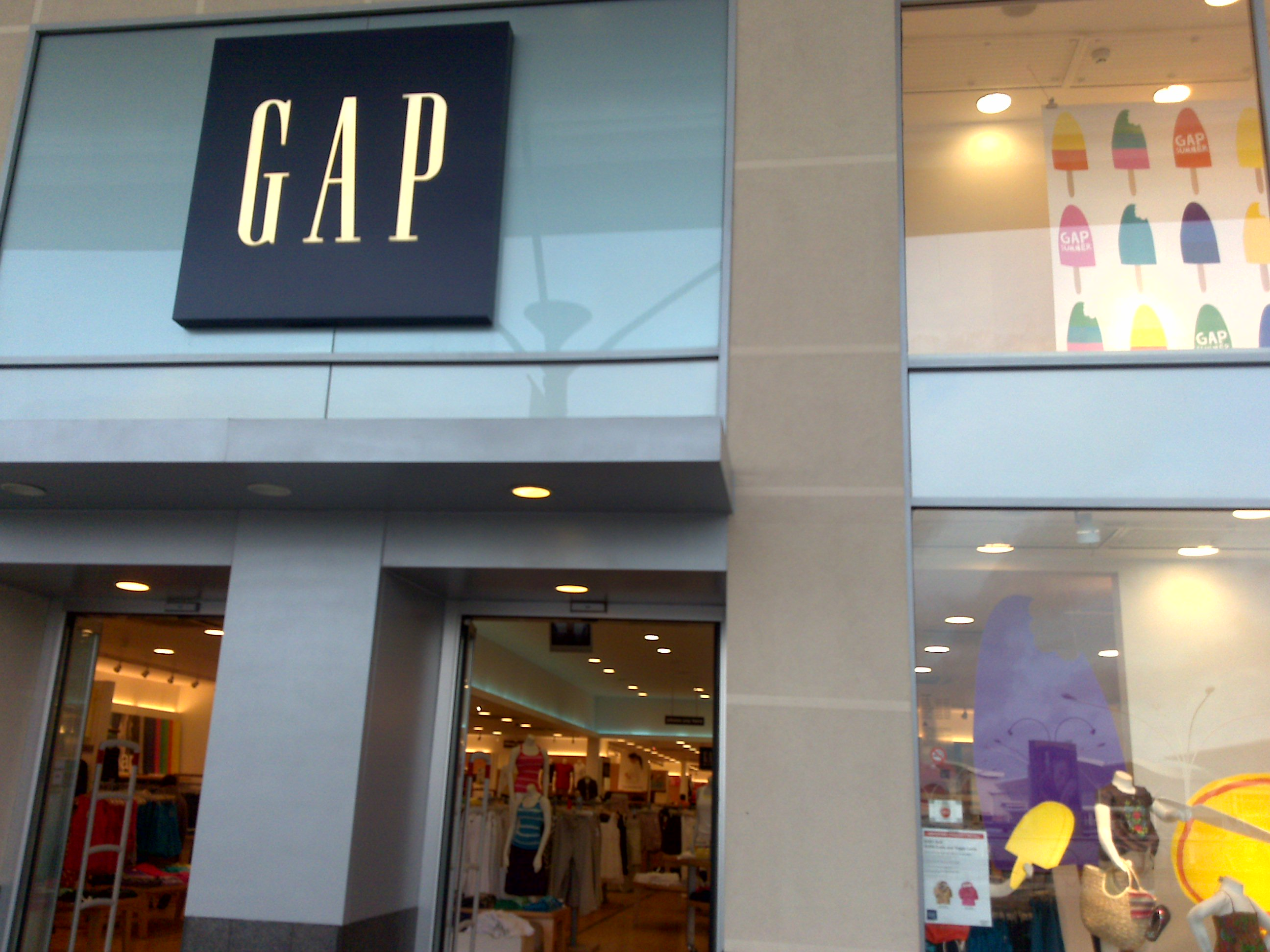 The GAP store at Castlepoint Shopping Centre